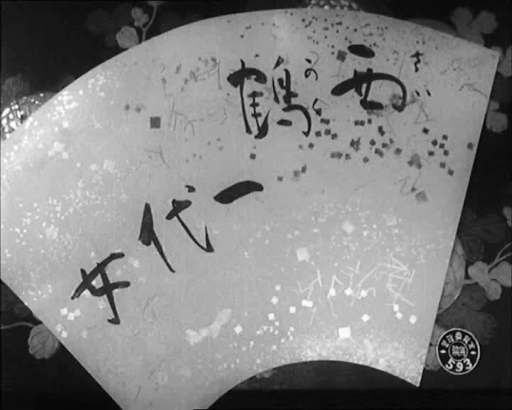 Screenshot from The Life of Oharu, 1952 film.